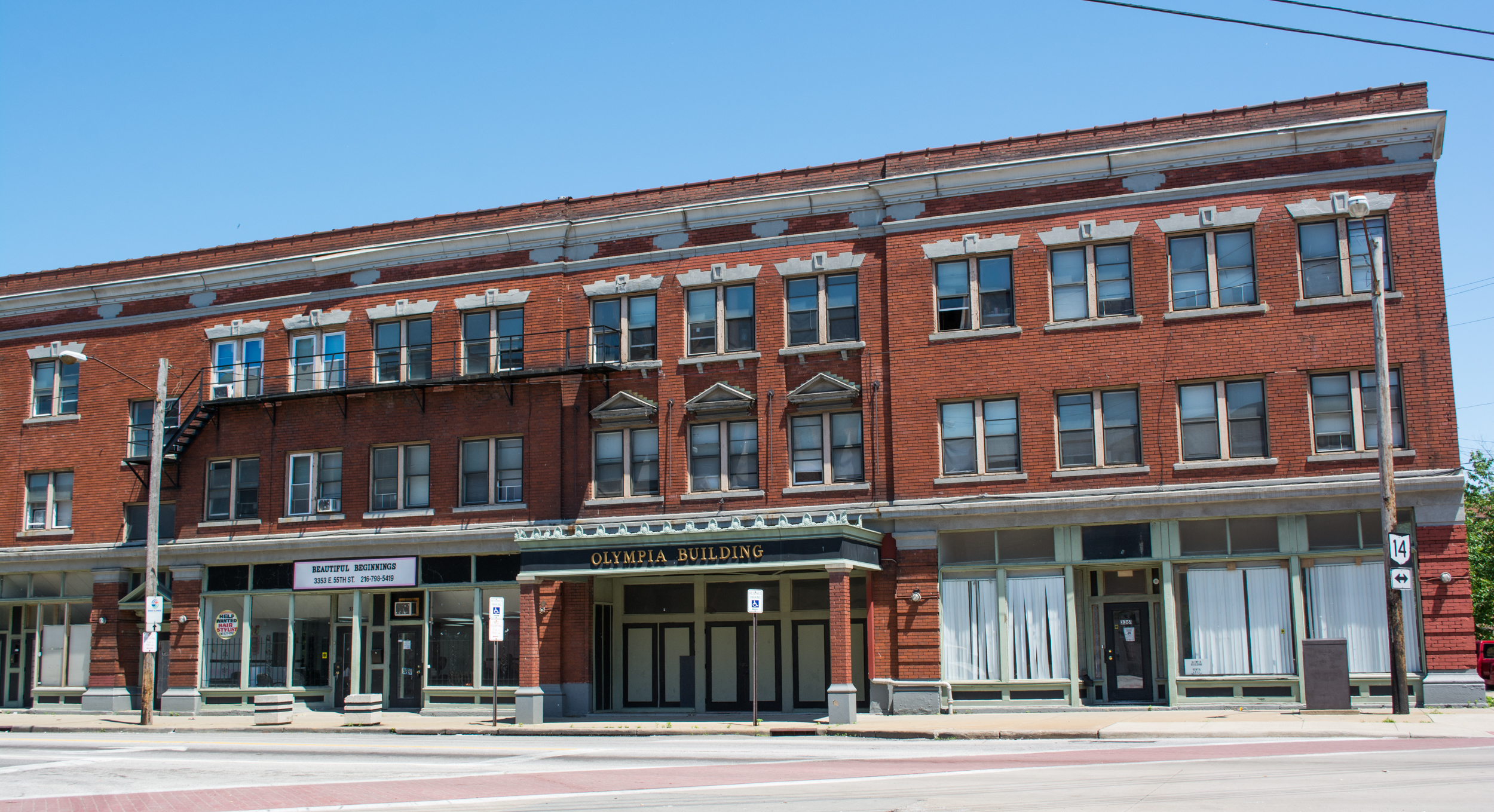 The Olympia Theatre at 3355 E. 55th Street in Cleveland, Ohio, in the United States. The building is a contributing property to the Broadway Avenue Historic District, which was added to the National Register of Historic Places in 1988. The mixed-use building was constructed in 1911-1912 and designed by architect George Allen Grieble. It featured a 2,000-seat theater in the rear, eight retail shops on the ground floor, and 30 apartments on the second and third floors. It closed in 1981. It was renovated in 1987, although the theater itself was razed to make room for parking.